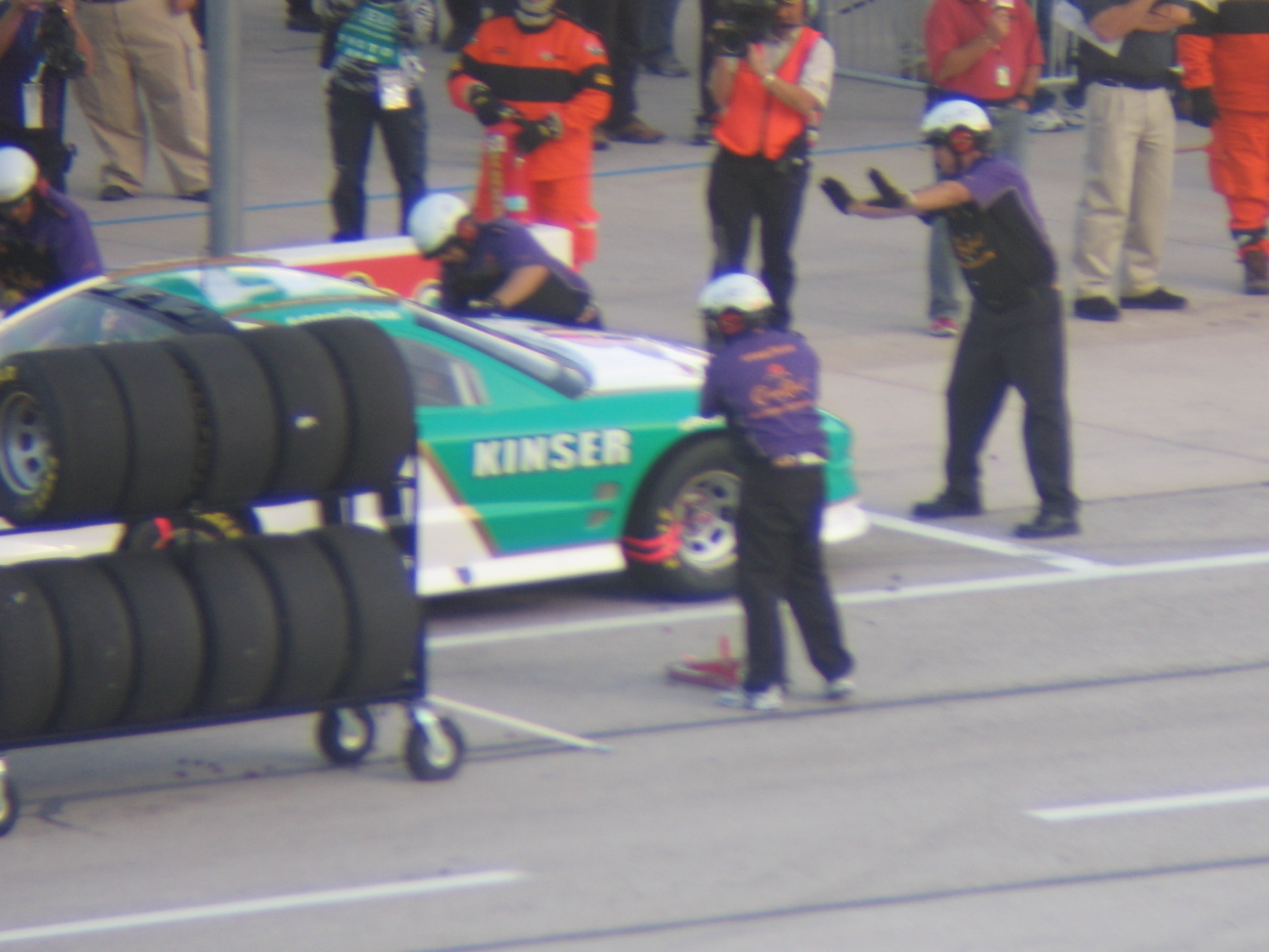 Steve Kinser at Texas Motor Speedway IROC race on April 7, 2006.